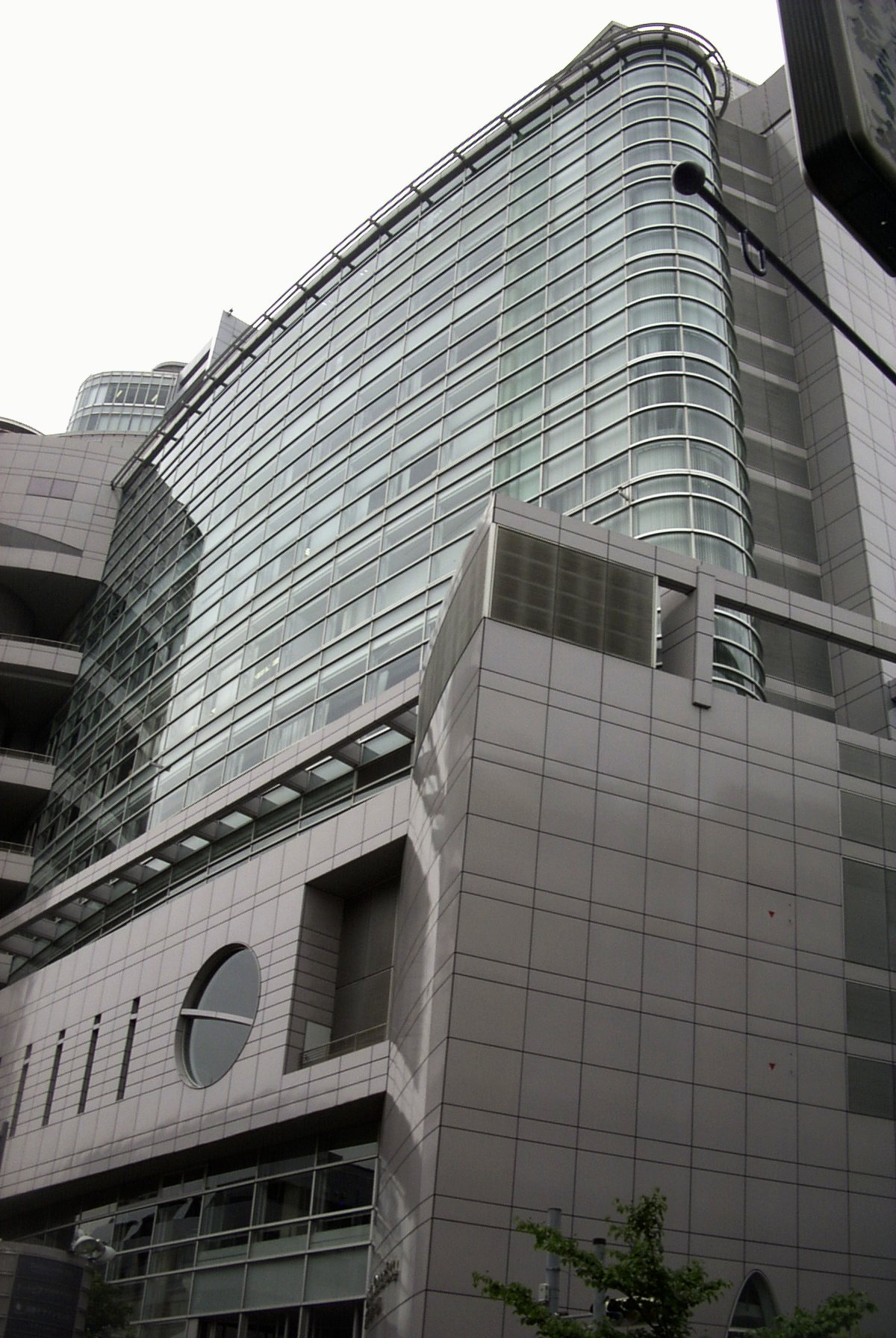 International design center NAGOYA (IdcN)